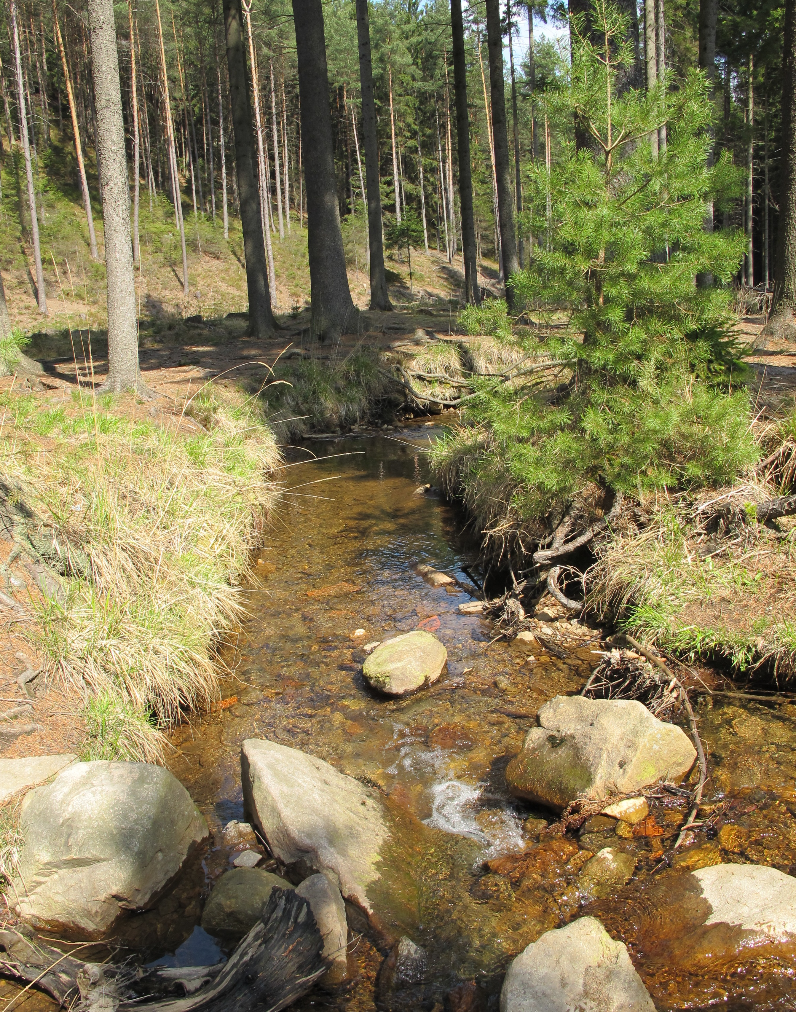 Stream Novohradka in Natural Reserve Maštale (Ústí nad Orlicí District, Czech Republic)